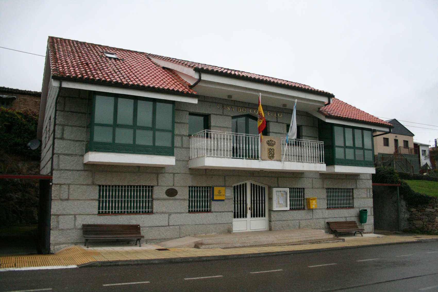 Town Hall in A Teixeira (Spain)